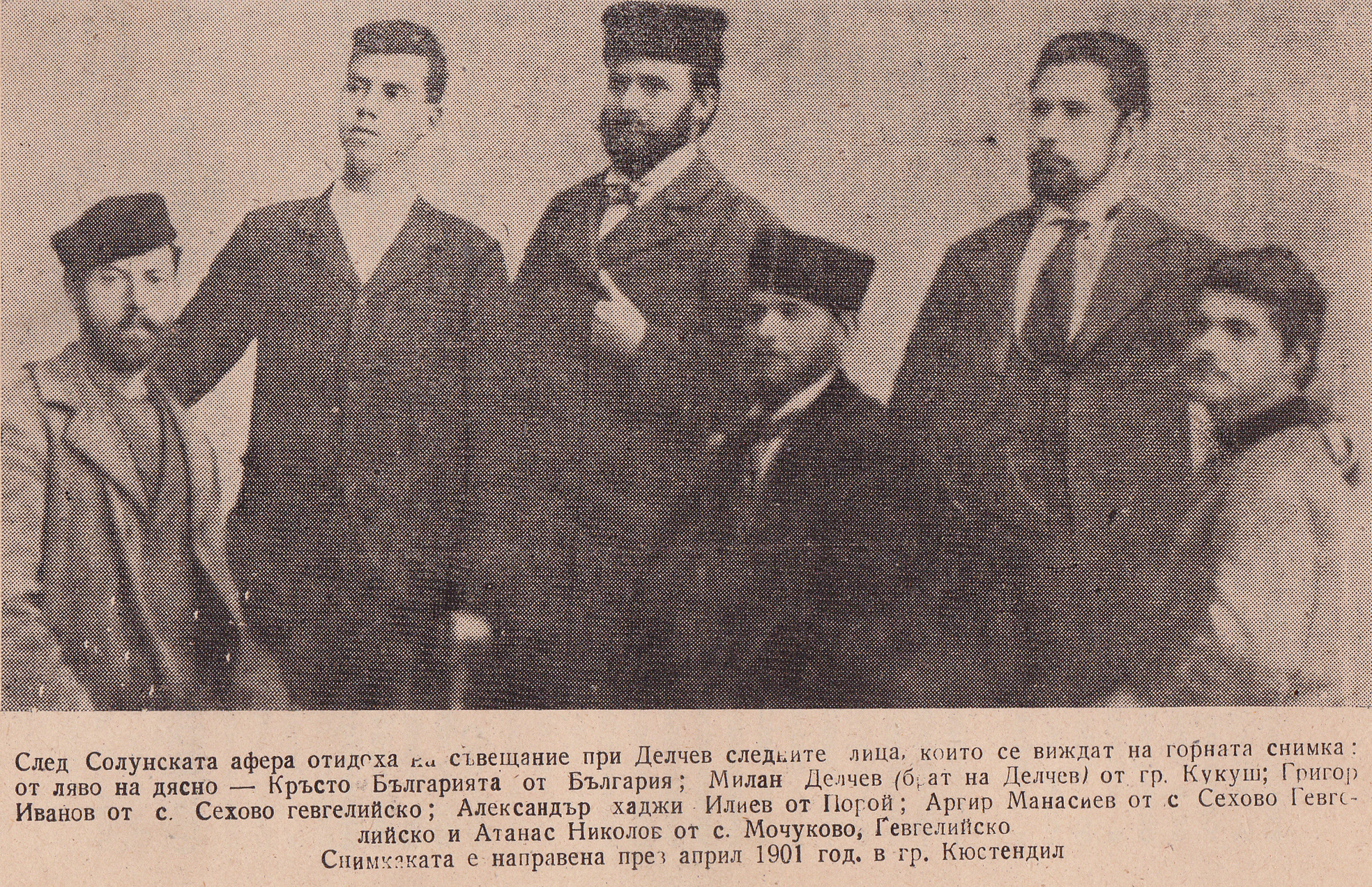 group of IMARO members